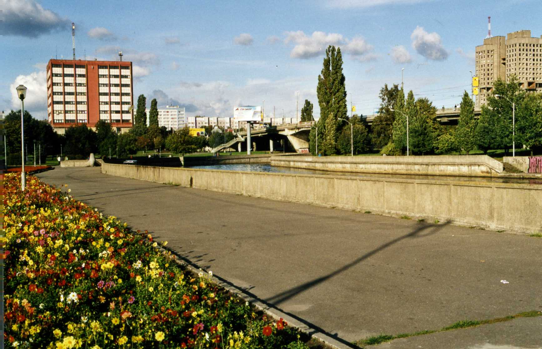 View from the Sports Hall back towards the Pregel Bridge and the House of the Soviets and Hotel Kaliningrad.